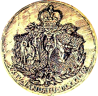 Coat of arms of United Principalities of Moldavia and Wallachia in 1859 (unofficial)